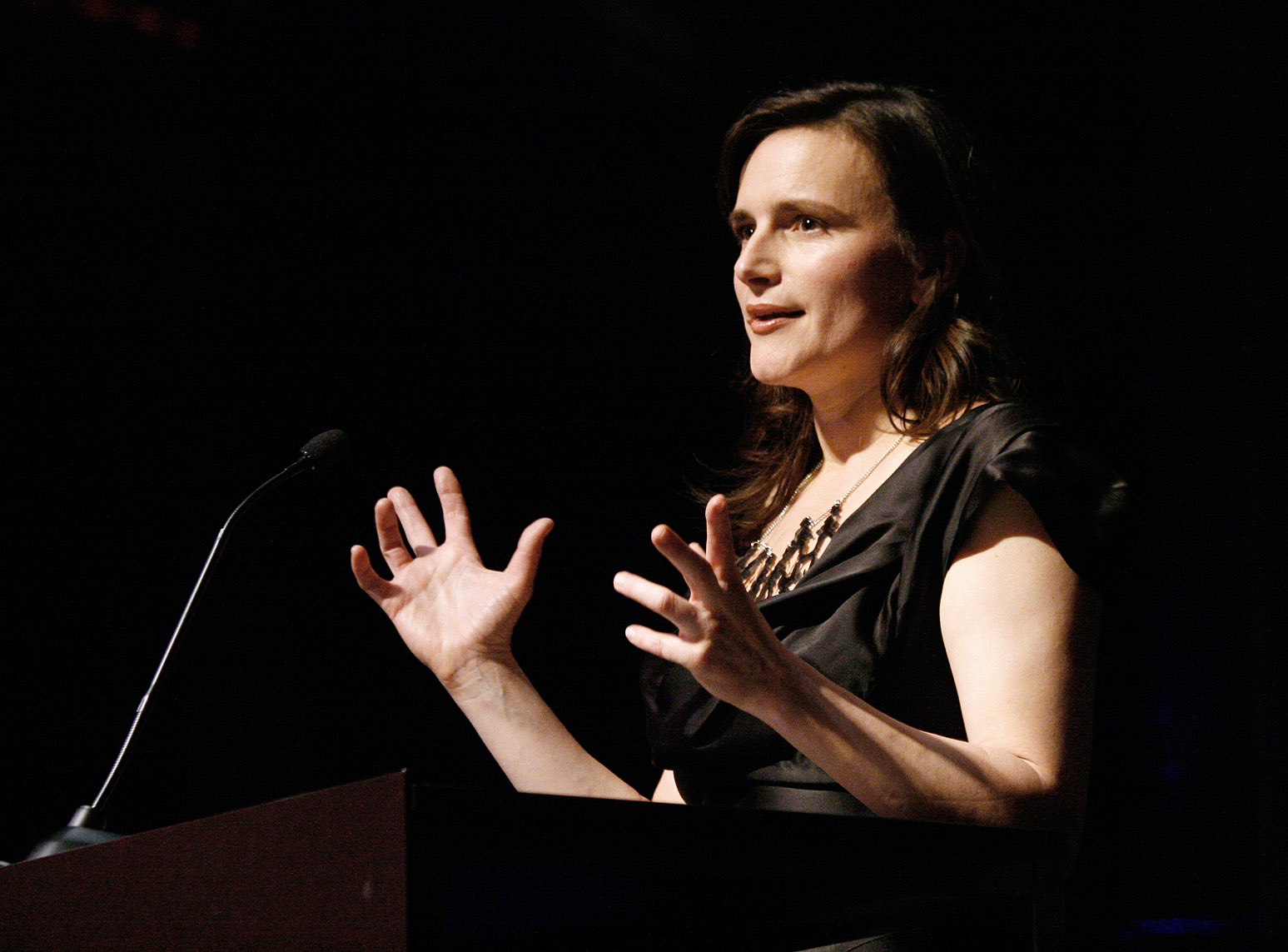 Barbara Albert presenting the Austrian Film Awards 2011 at the Odeon theater in Vienna.